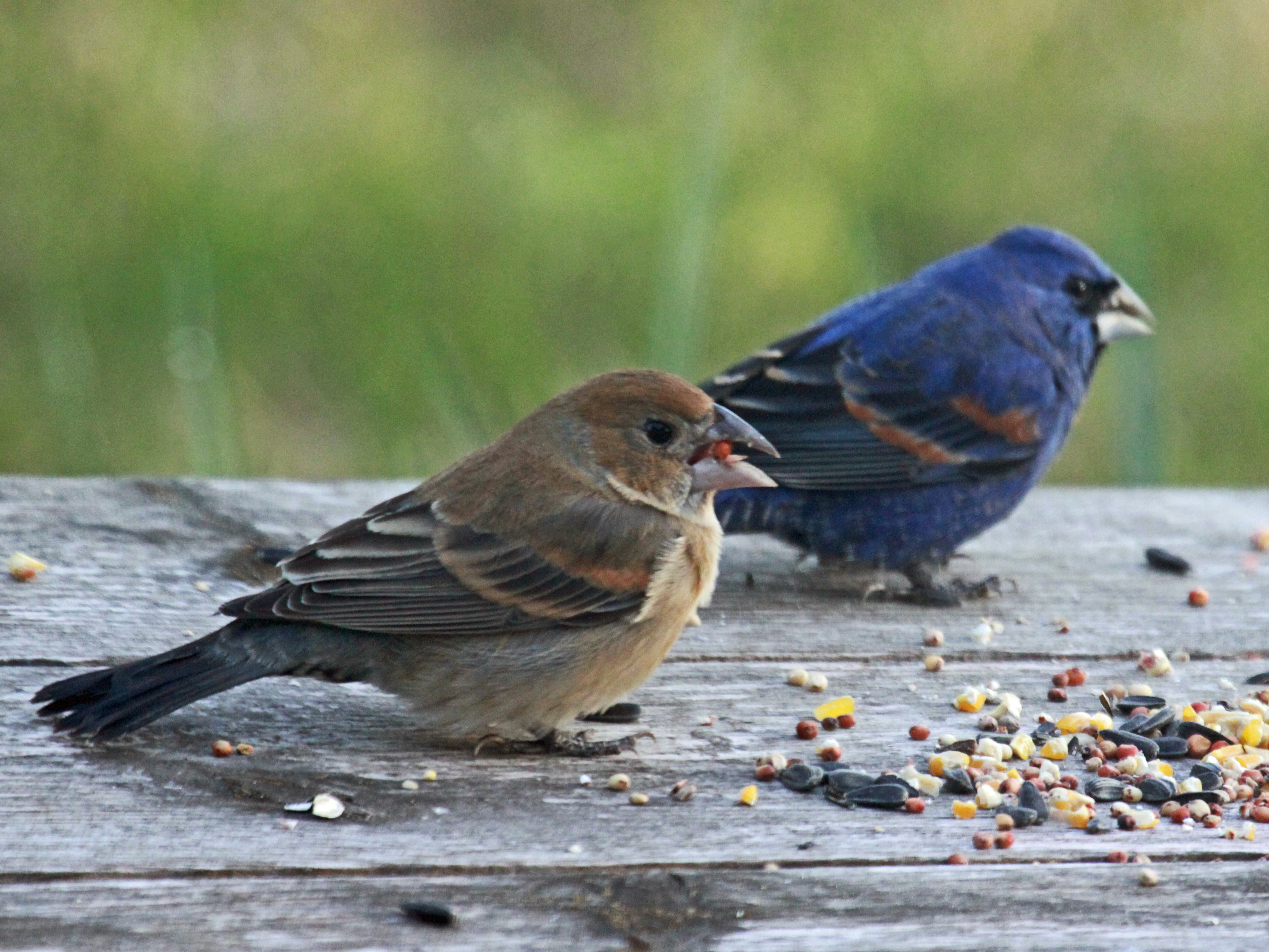 Blue Grosbeak pair (Passerina caerulea) in Ash, North Carolina, USA